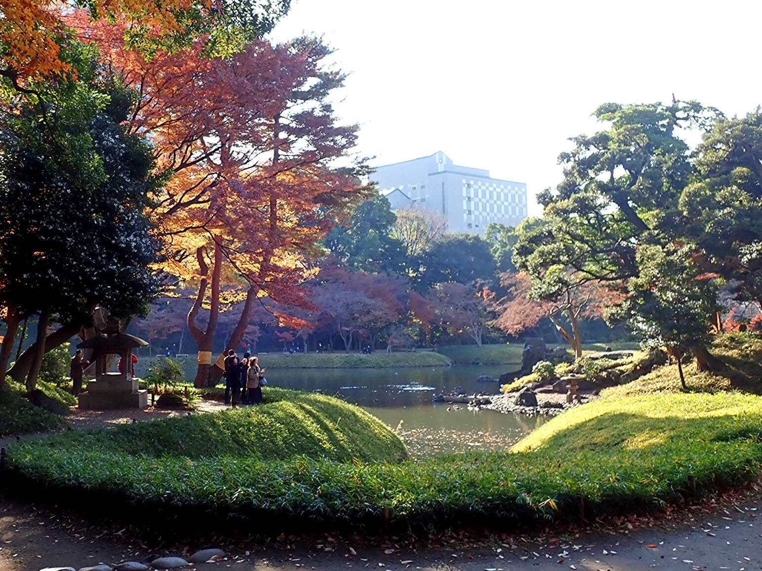 autumn colours of leaves at Koishikawa Kourakuen